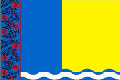 The flag of Berezivka Raion, Odessa Oblast, Ukraine